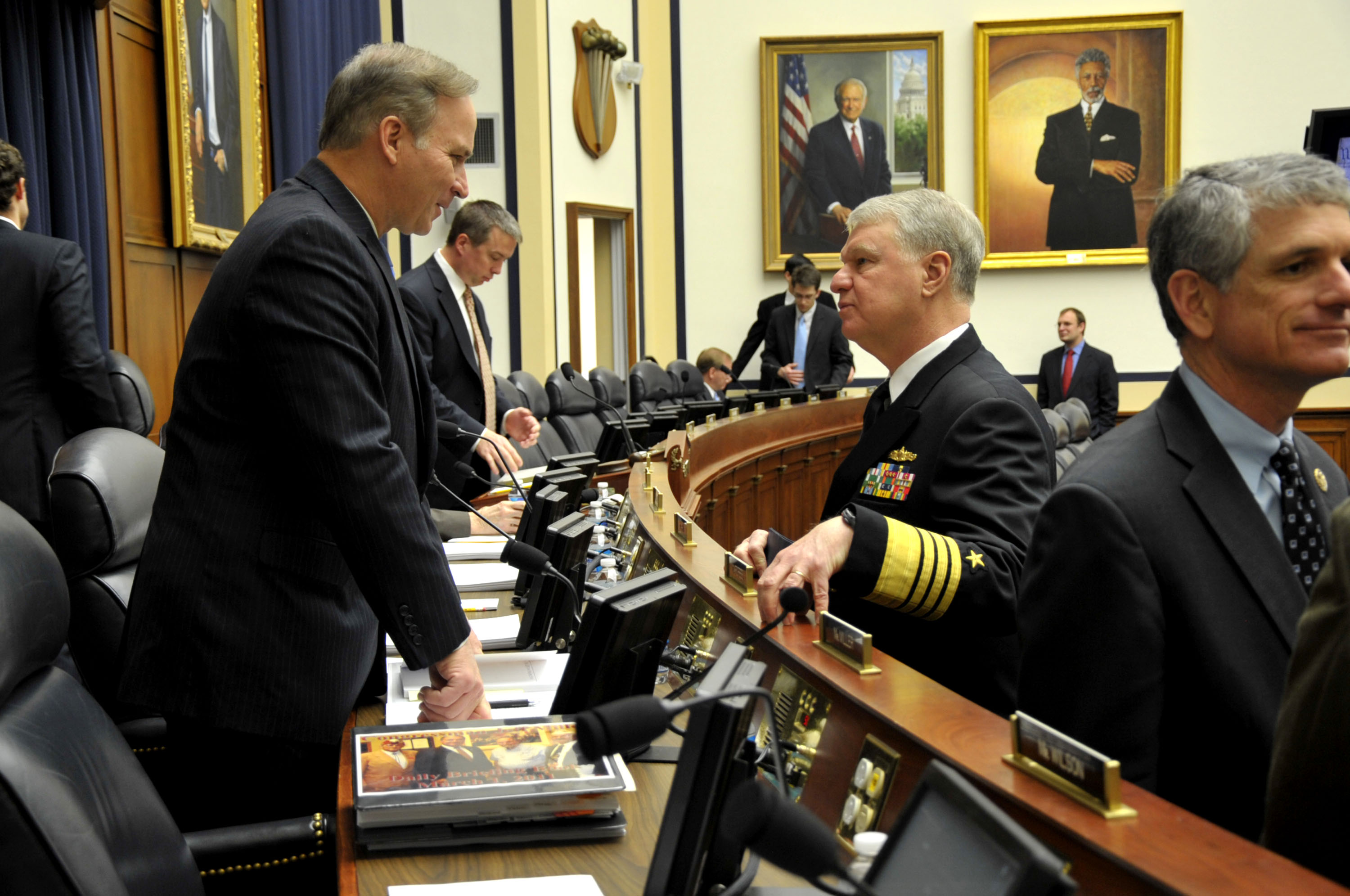 WASHINGTON (March 1, 2011) Chief of Naval Operations (CNO) Adm. Gary Roughead speaks with Rep. Randy Forbes before testifying before the House Armed Services Committee concerning the fiscal year 2012 National Defense Authorization Budget request from the Department of Defense. (U.S. Navy photo by Chief Mass Communication Specialist Tiffini Jones Vanderwyst/Released)